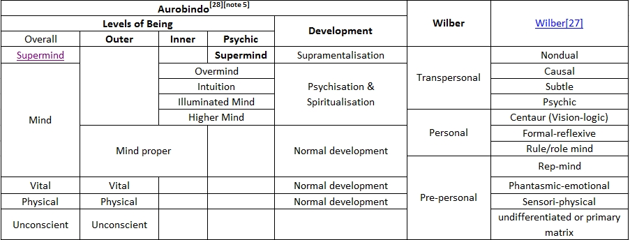 Comparison of the models of Wilber and Aurobindo; differentiating between Aurobindo's levels of being and Aurobindo's developmental stages.